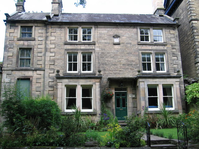 Matlock - Derwent House On Knowleston Place, Matlock Green.